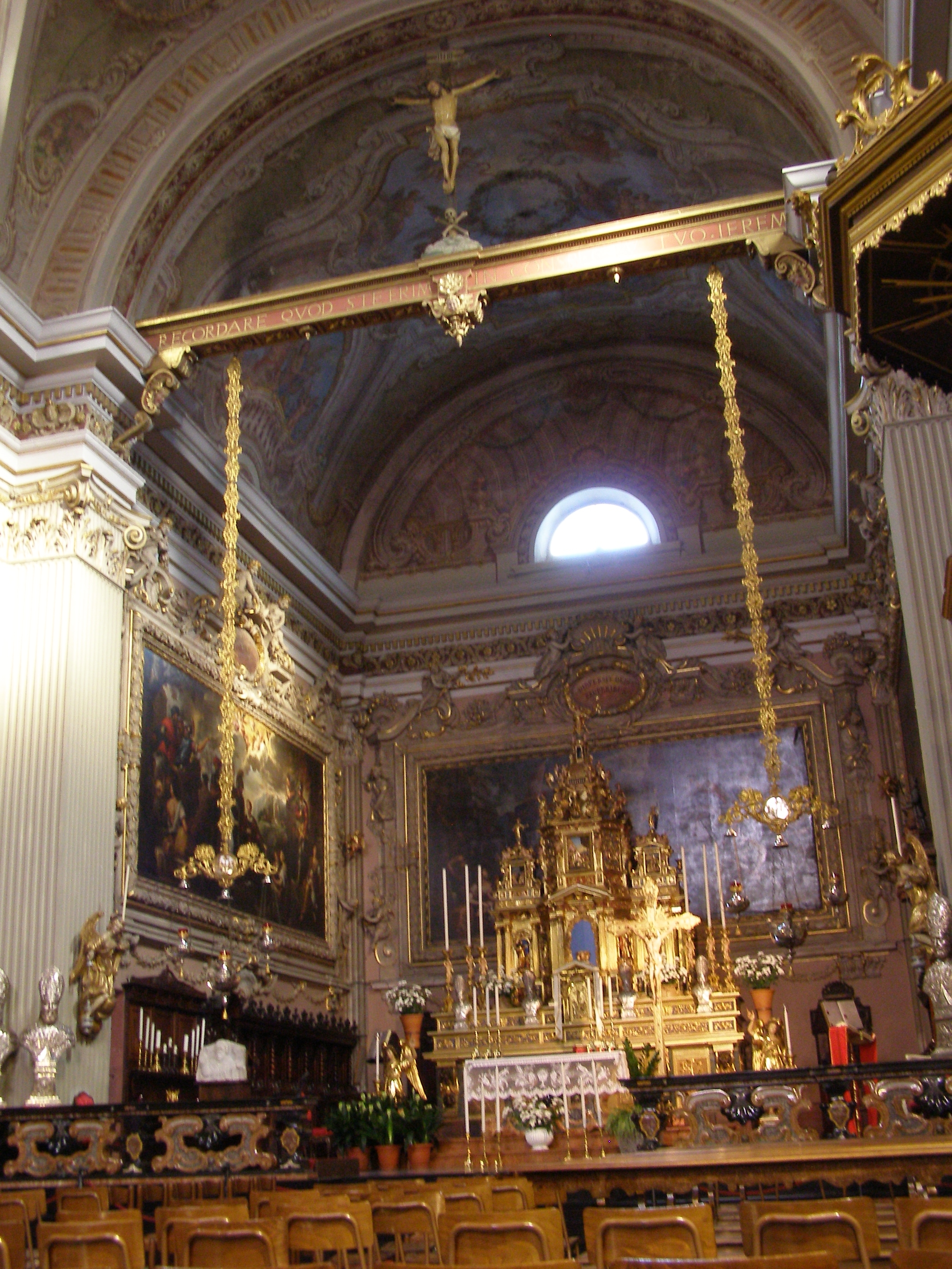 Mandello del Lario - St. Lawrence church